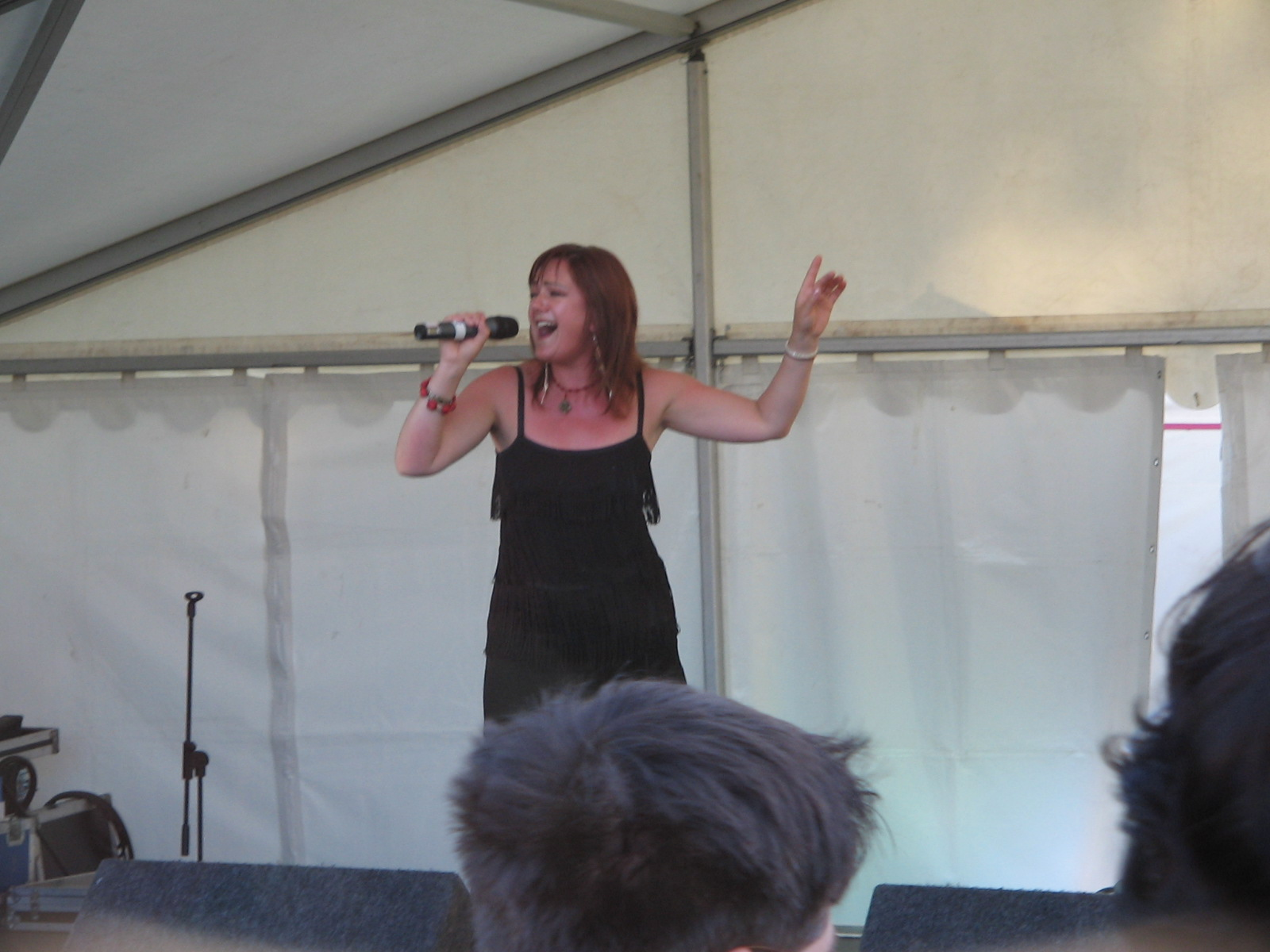 Nicki French performs at the Oxford Gay Pride Festival in Summer 2005